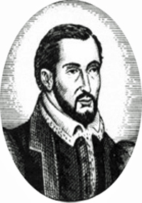 Contemporary portrait (circa 1530) of Fernando de Rojas by unknown artist, printed in and scanned from La Celestina, Barcelona: Vicens Vives, 2007, ISBN 8431615117.